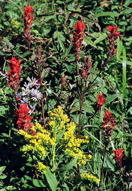 By mid-August, a number of species are no longer in flower, but paintbrush continues to bloom, and has been joined Canadian goldenrod and showy wood aster. Ø2004 D. Windrim Captioned As {}